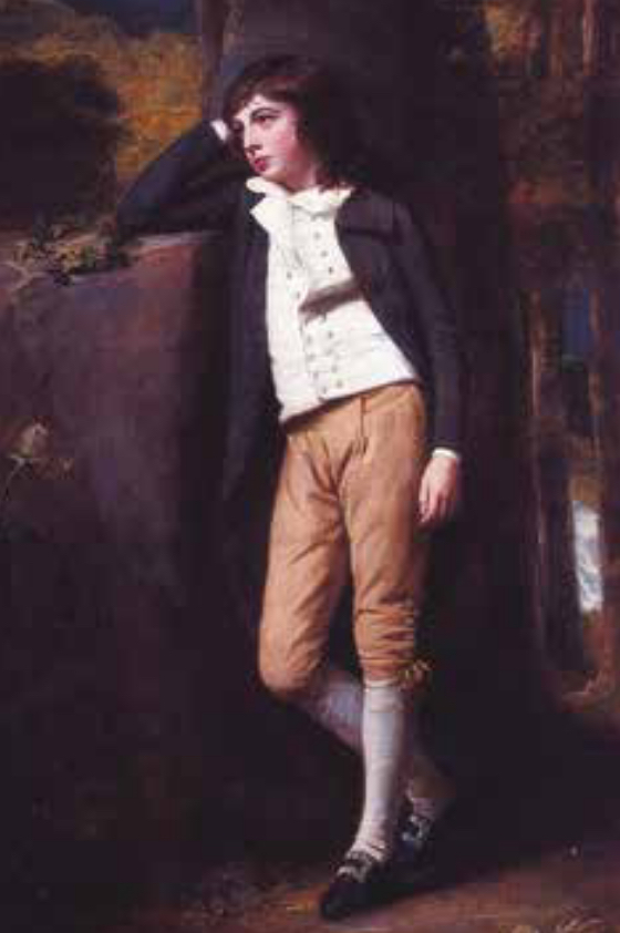 The Hon William Courtenay ("Kitty Courtenay"), later 3rd Viscount and 9th Earl of Devon, as a boy. He was George Gordon Byron's and William Beckford's lover.